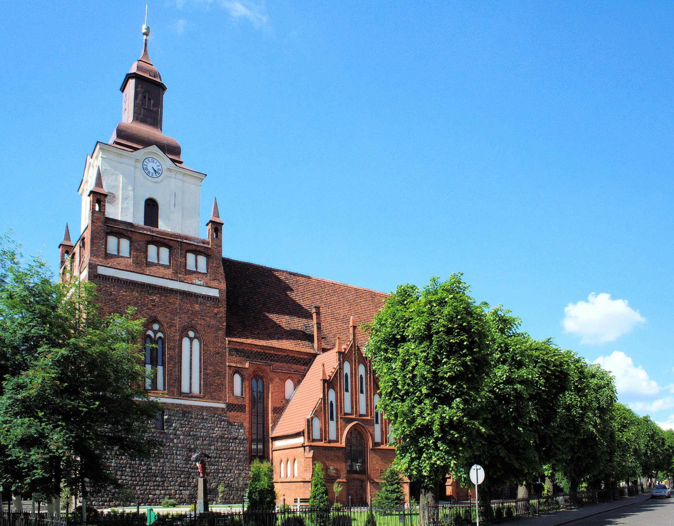 Church of the Transfiguration of the Lord in Mieszkowice